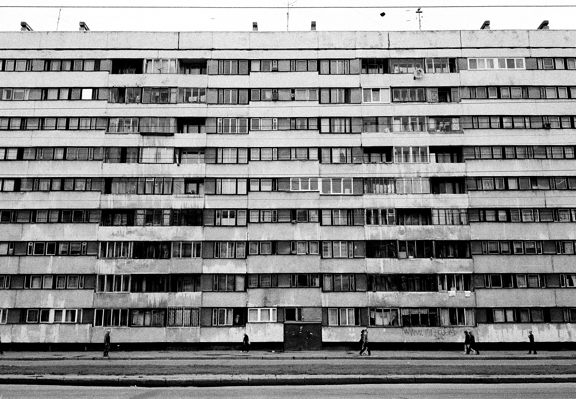 Apartment block, Halichnaya Street, St. Petersburg